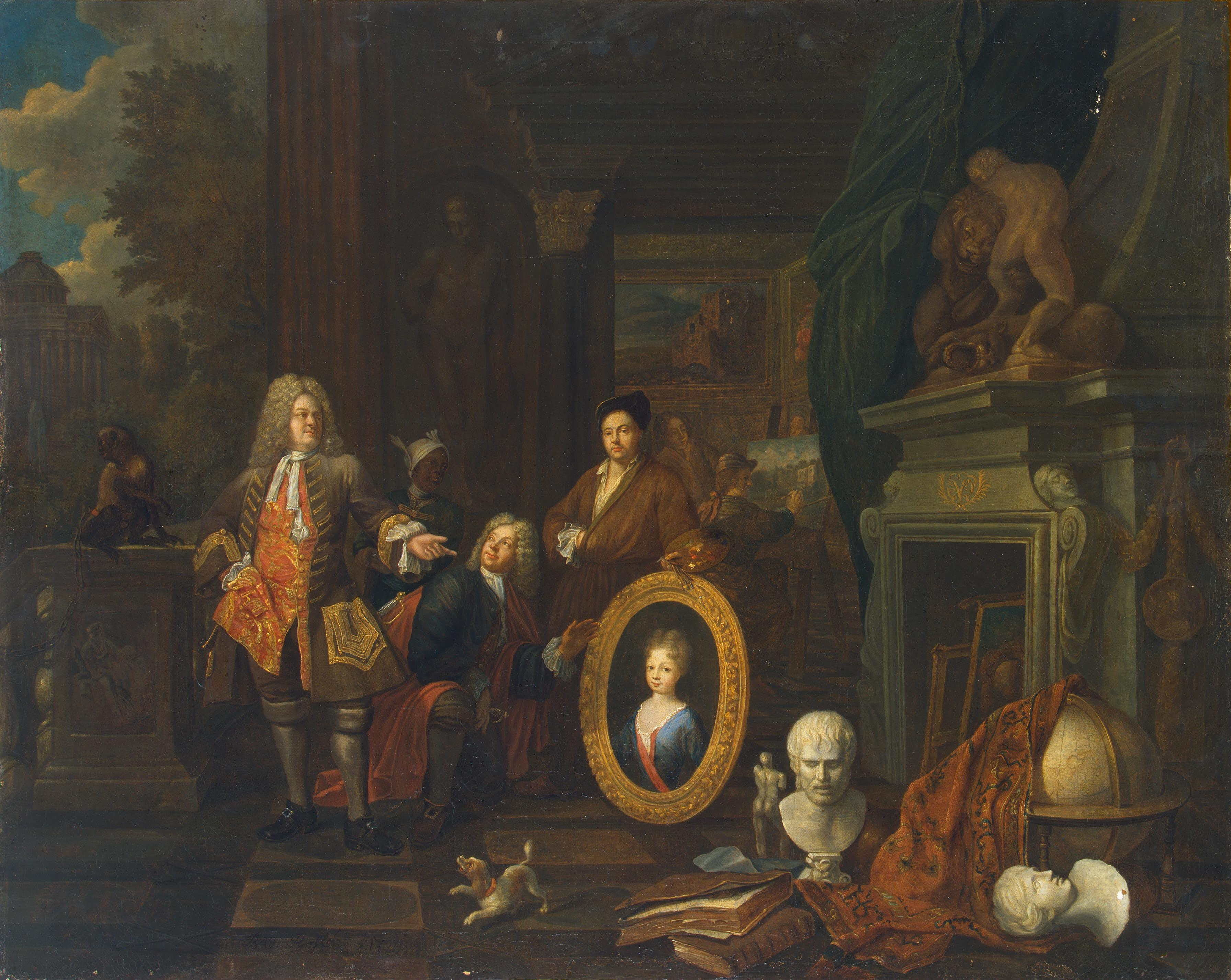 Studio of an Artistlabel QS:Len,"Studio of an Artist" label QS:Lpl,"Studio artysty"